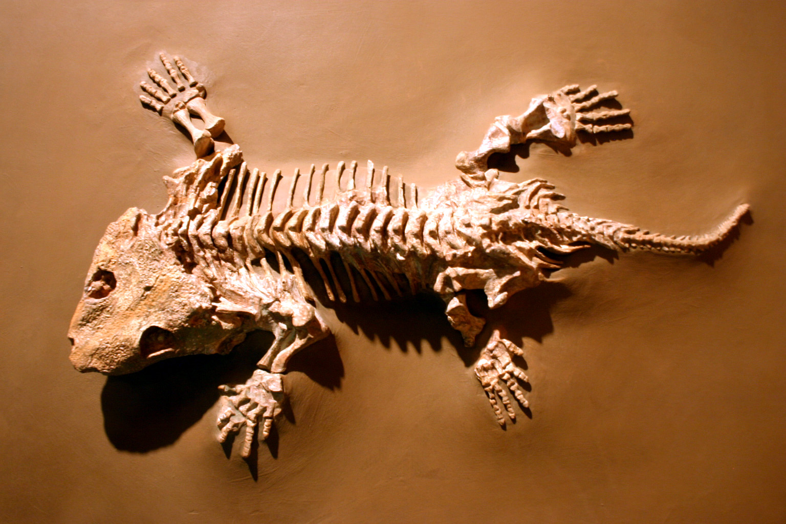 Seymouria baylorensis skeleton, Museum of Natural History Washington, D.C. USA.